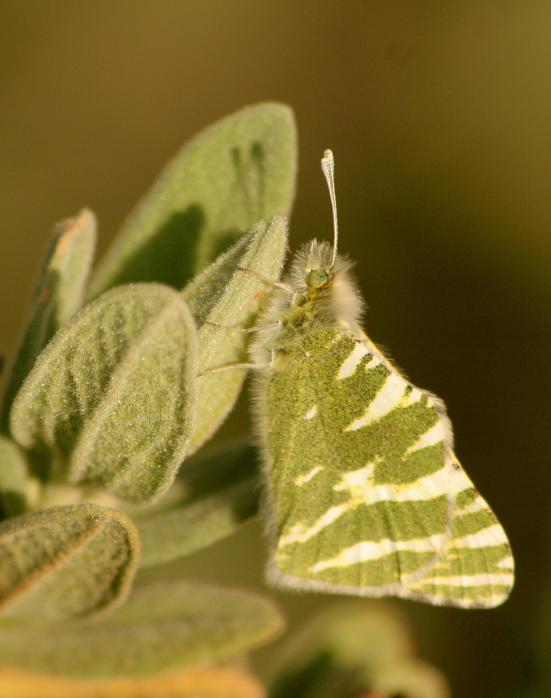 Green-striped White